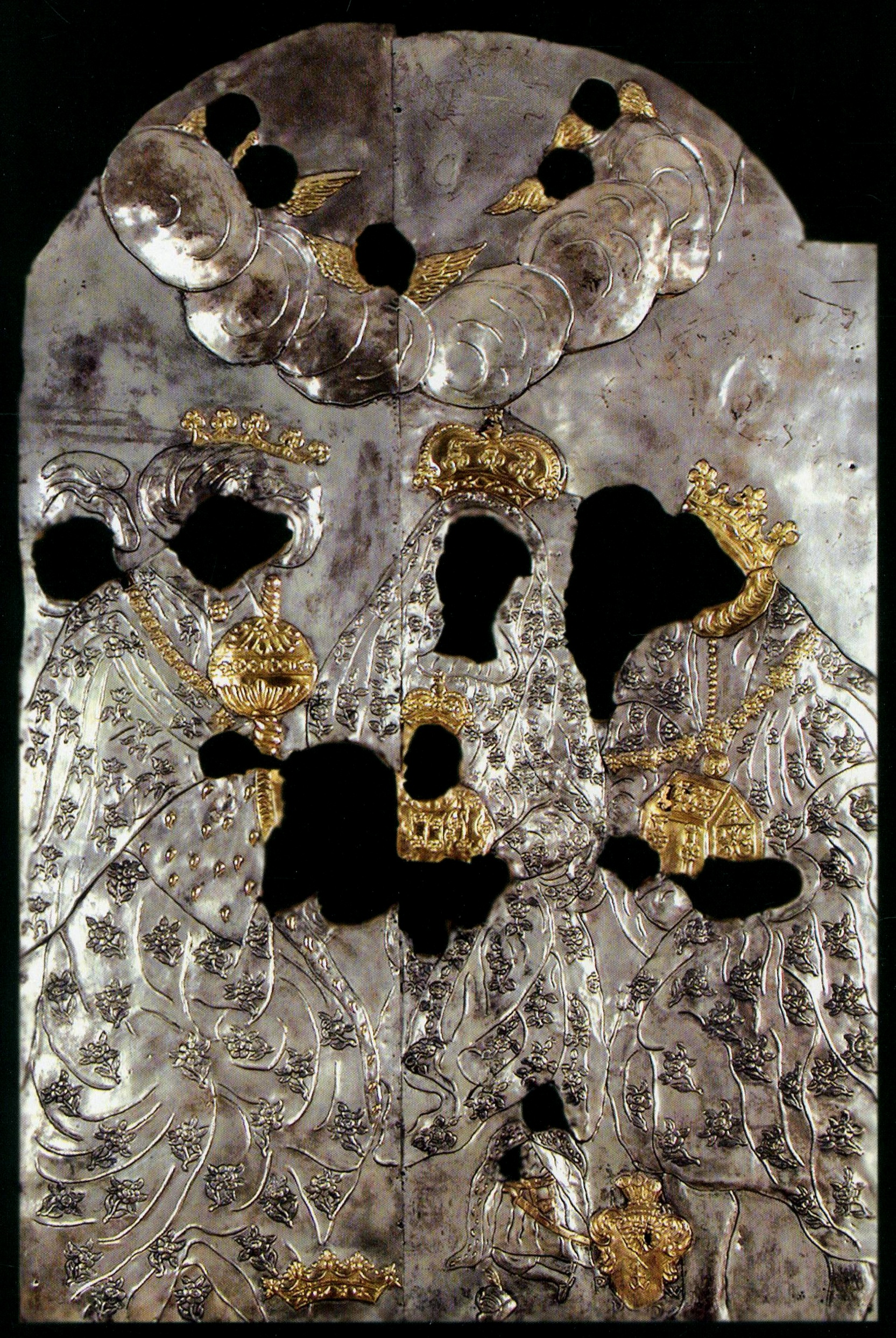 METAL MOUNTING OF ICON THE ADORATION OF THE MAGI. 2d half of the 18th с Metal, minting. St. Peter and Paul's Church, Drysviaty, Braslau district, Vitsiebsk region.